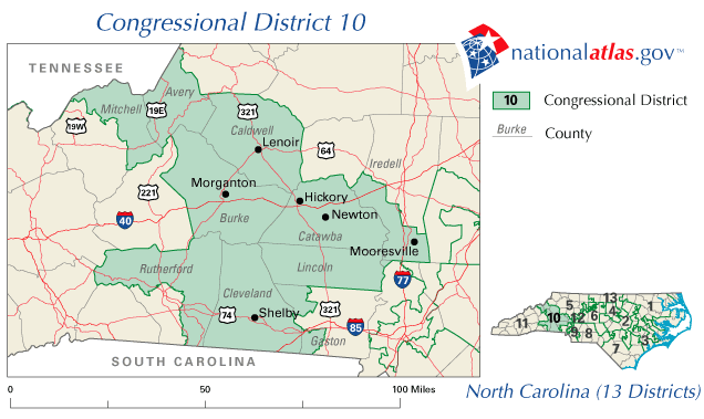 North Carolina's 10th congressional district prior to 2012 redistricting